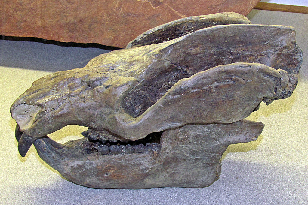 This tritylodont reptile is from the Early Jurassic Kayenta Formation of northeastern Arizona. The St. George Dinosaur Discovery Site at Johnson Farm (St. George, Utah) is home to exceptionally well-preserved dinosaur tracks, some displaying skin impressions. These tracks, along with hundreds of fossil fish, plants, rare dinosaur remains, invertebrates traces and important sedimentary structures, show evidence that this site was produced along the western edge of a large, Early Jurassic (age between 195-198 million years ago) freshwater lake named Lake Dixie.